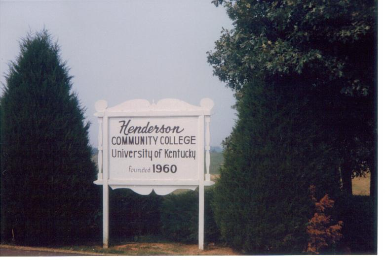 I took photo in July 1987.Billy Hathorn (talk) 21:14, 9 September 2008 (UTC)